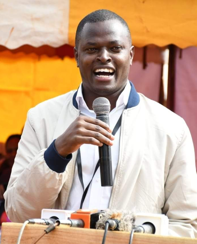 Ndindi